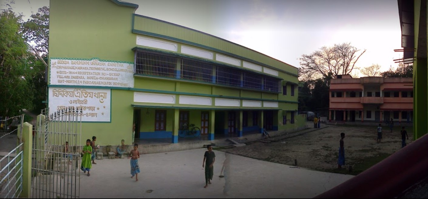 paikpaea siddiqia eatimkhana, paikpara basirhat, pin743422